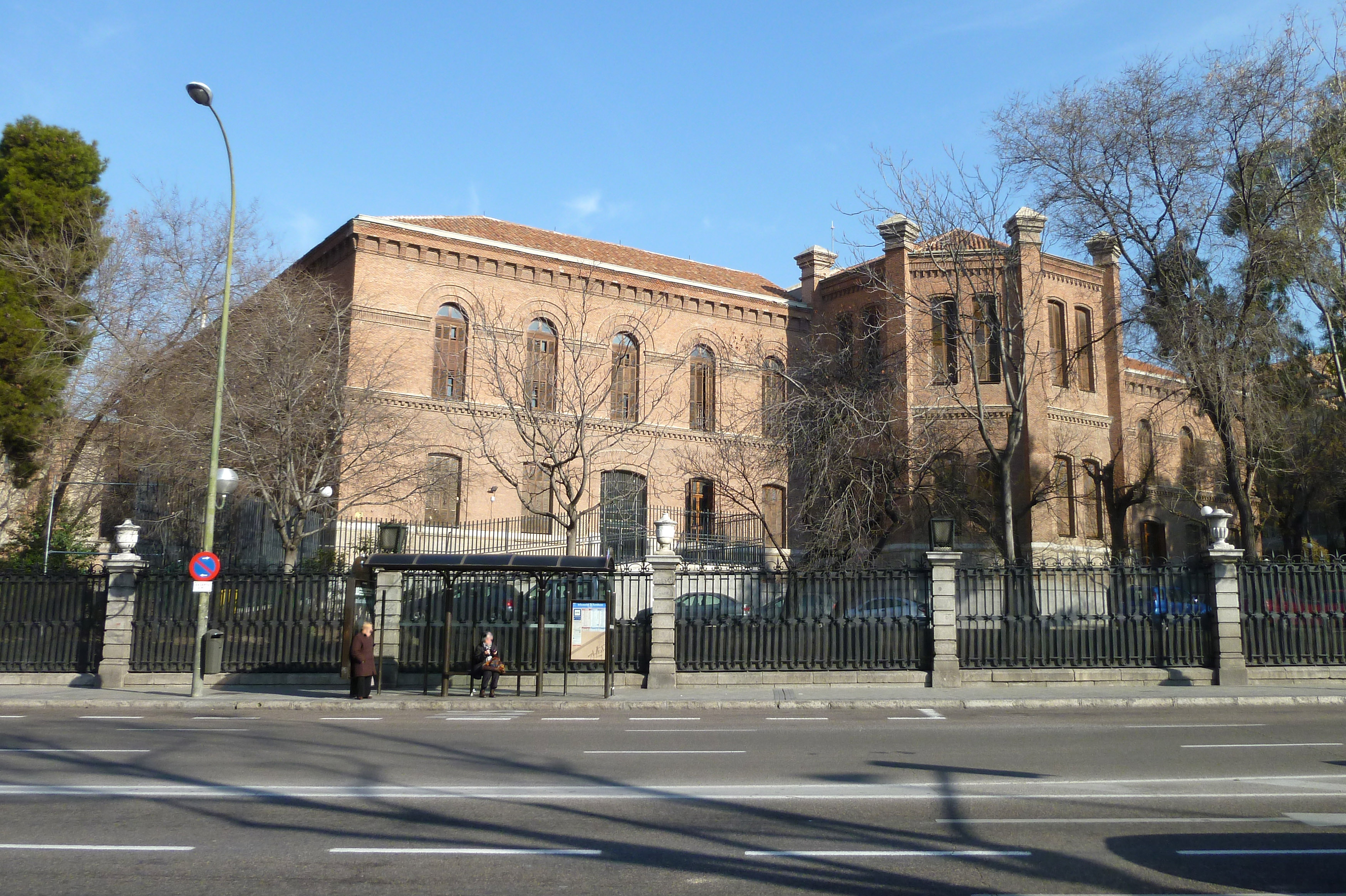 View of I.E.S. Cervantes (a secondary school) in Madrid (Spain) from Ronda de Toledo (street).